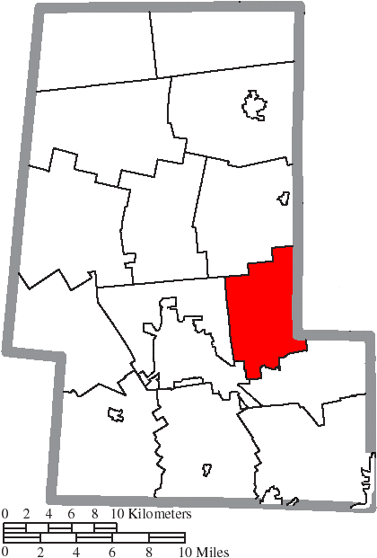 Map of the municipal and township boundaries of Union County, Ohio, United States, as of the 2000 census, with the location of Dover Township highlighted. Township borders are shown only in unincorporated areas in order to differentiate incorporated and unincorporated areas more clearly.